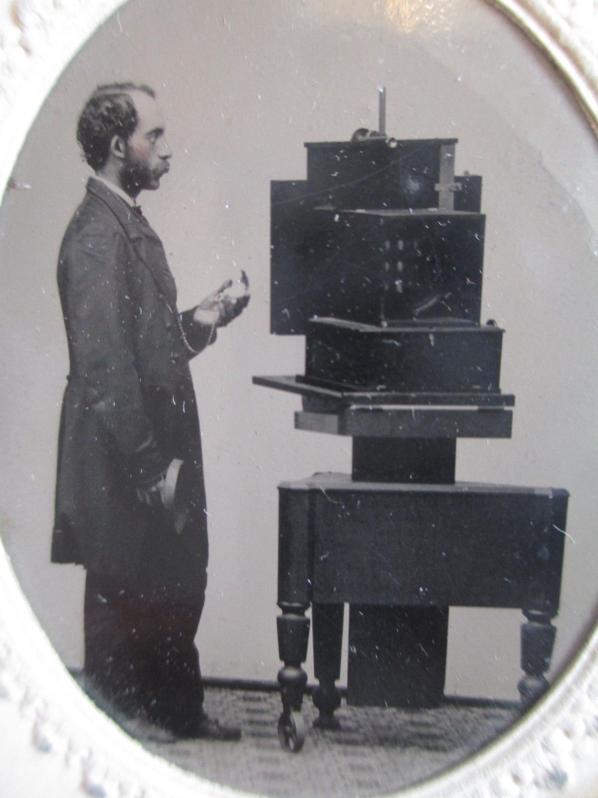 Tintype of Photographer with Simon Wing Daguerreotype Camera